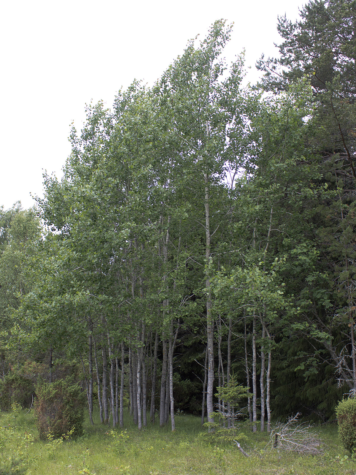 Salicaceae, Populus tremula